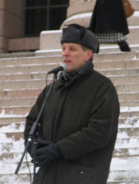 Esko-Juhani Tennilä's speech at internet censorship demonstration 4.3.2008 at stairs of Parliament house, Helsinki, Finland